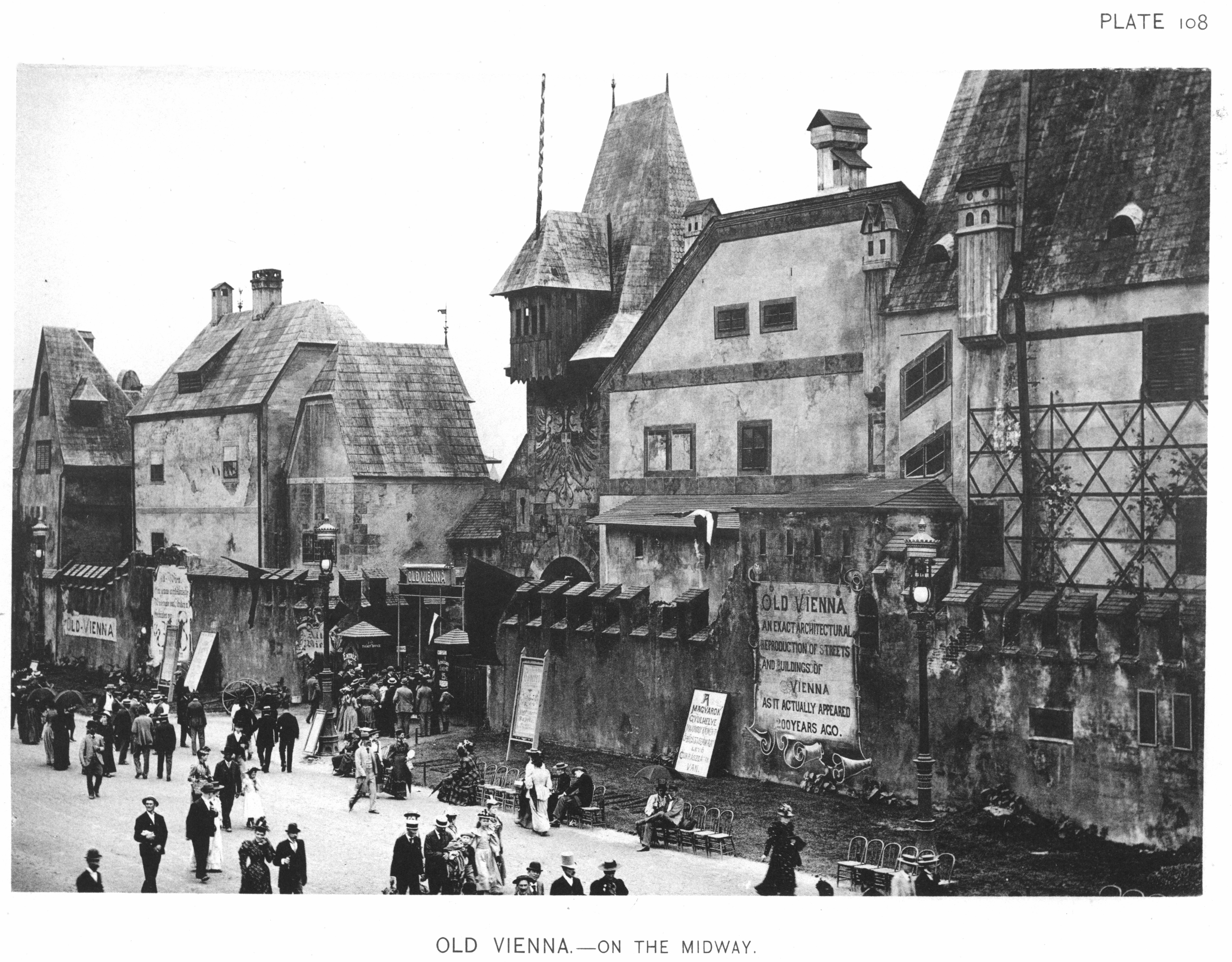 Official Views Of The World's Columbian Exposition: Old Vienna--On The Midway